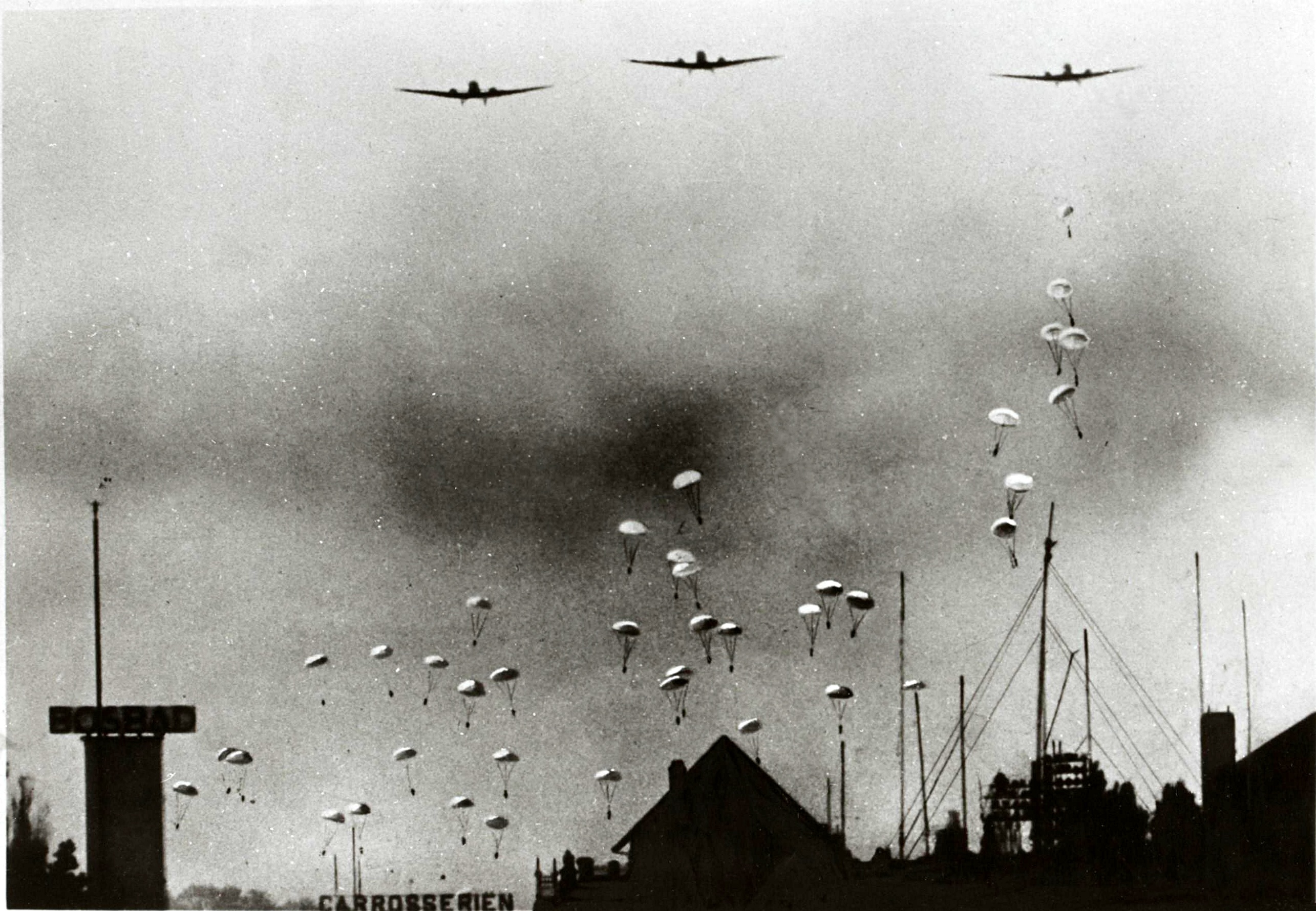 May 10, 1940, German paratroopers above the neighborhood of Bezuidenhout in The Hague